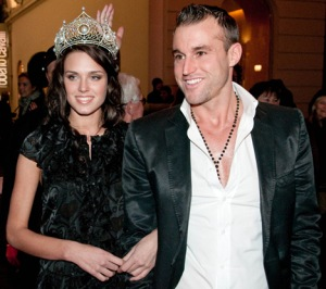 Russian model Irina Antonenko (Miss Russia 2010) and fashion designer Philipp Plein, March 12, 2010 in Moscow